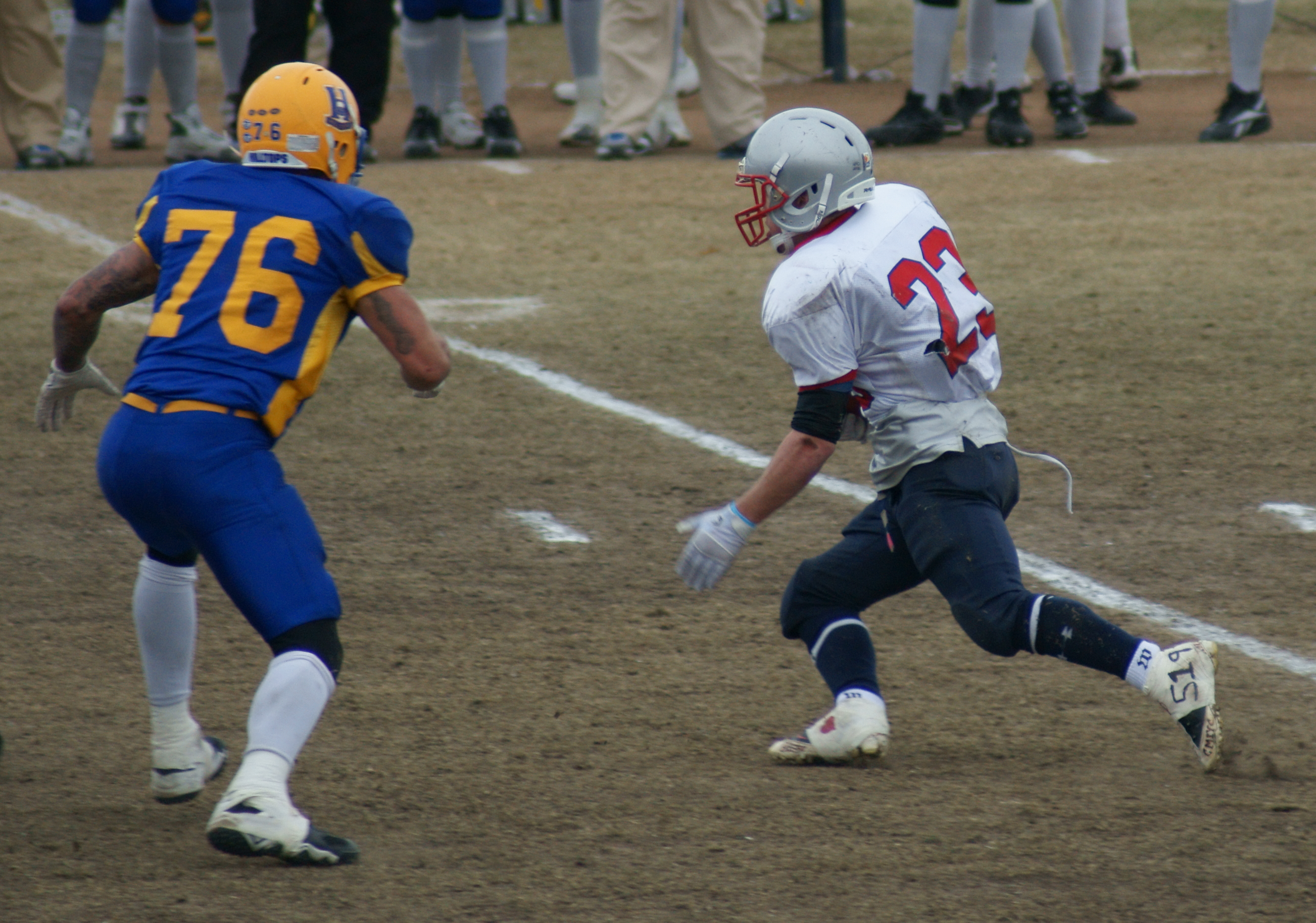 Sunday October 28, 2012 12:00 p.m. London Beefeaters vs Saskatoon Hilltops Junior Football semi final game in the . Category:Canadian Junior Football League. Saskatoon hosted teams from London, Ontario and Saskatoon, Saskatchewan at Gordie Howe Bowl, a football stadium, home of the Saskatoon Hilltops. The game concluded at Saskatoon Hilltops 51 - 7 London Beefeaters. The Hilltops were the Prairie Football Conference (PFC) champions acquiring their 15th championship trophy at the 36th PFC Championship game against the ReginaThunder Oct 21,2012. On Oct 13, 2012, for the very first time in 37 years, the Beefeaters were declared Ontario Football Conference OFC champions with their win over the :en:Hamilton Hurricanes}Hamilton Hurricanes . The Jostens Cup was awarded to the Saskatoon Hilltops and they go on to play the British Columbia Football Conference Champion for the Canadian Bowl Championship Saturday November 10, 2012 at 1:00 pm with the BCFC hosting the game. The 2012 BCFC Cullen Cup was earned in a 20-13 Langley Rams victory over the Vancouver Island Raiders, therefore, Langley, British Columbia will be host to the Canadian Bowl. London Beefeaters defeat Hamilton Hurricanes 19-16 to become Ontario Football Conference champions CJFL: Hilltops win PFC final over provincial rivals London Beefeaters taking on two-time defending national champions Saskatoon Hilltops in Josten’s Cup 2012 BCFC Cullen Cup Rams wrest Cullen Cup from favoured Raiders Saskatoon Hilltops head to Canadian Bowl CJFL Jostens Cup LIVE!